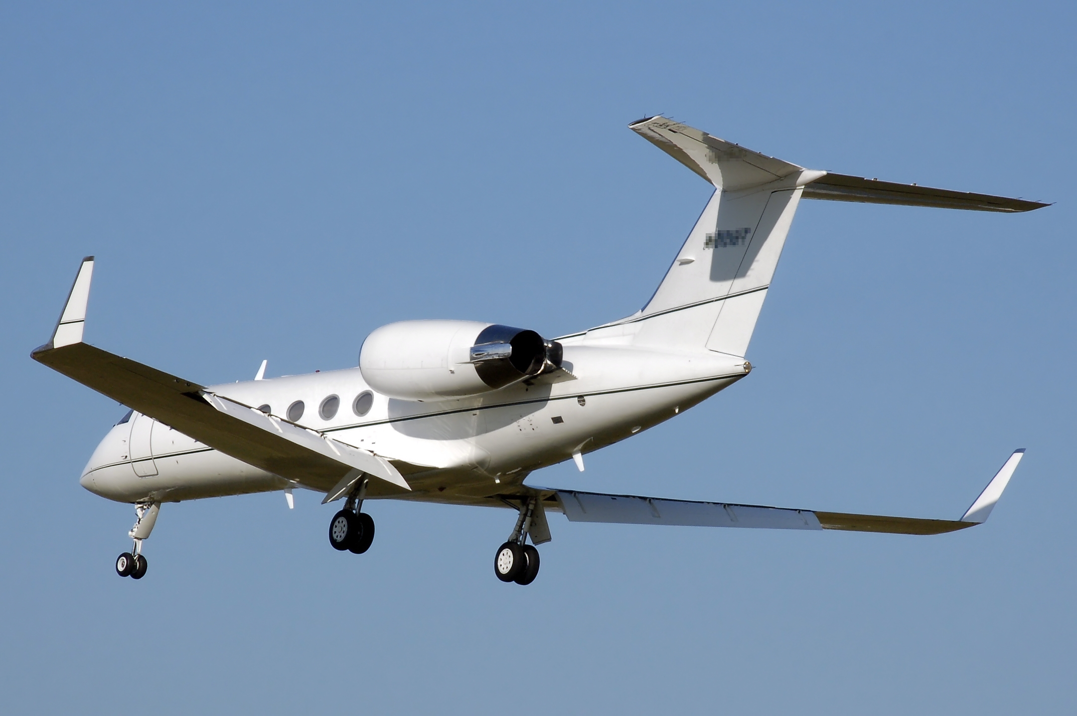 Gulfstream Aerospace G-IV-SP business jet landing at London Heathrow Airport, England. Photographed by Adrian Pingstone in October 2007 and released to the public domain.